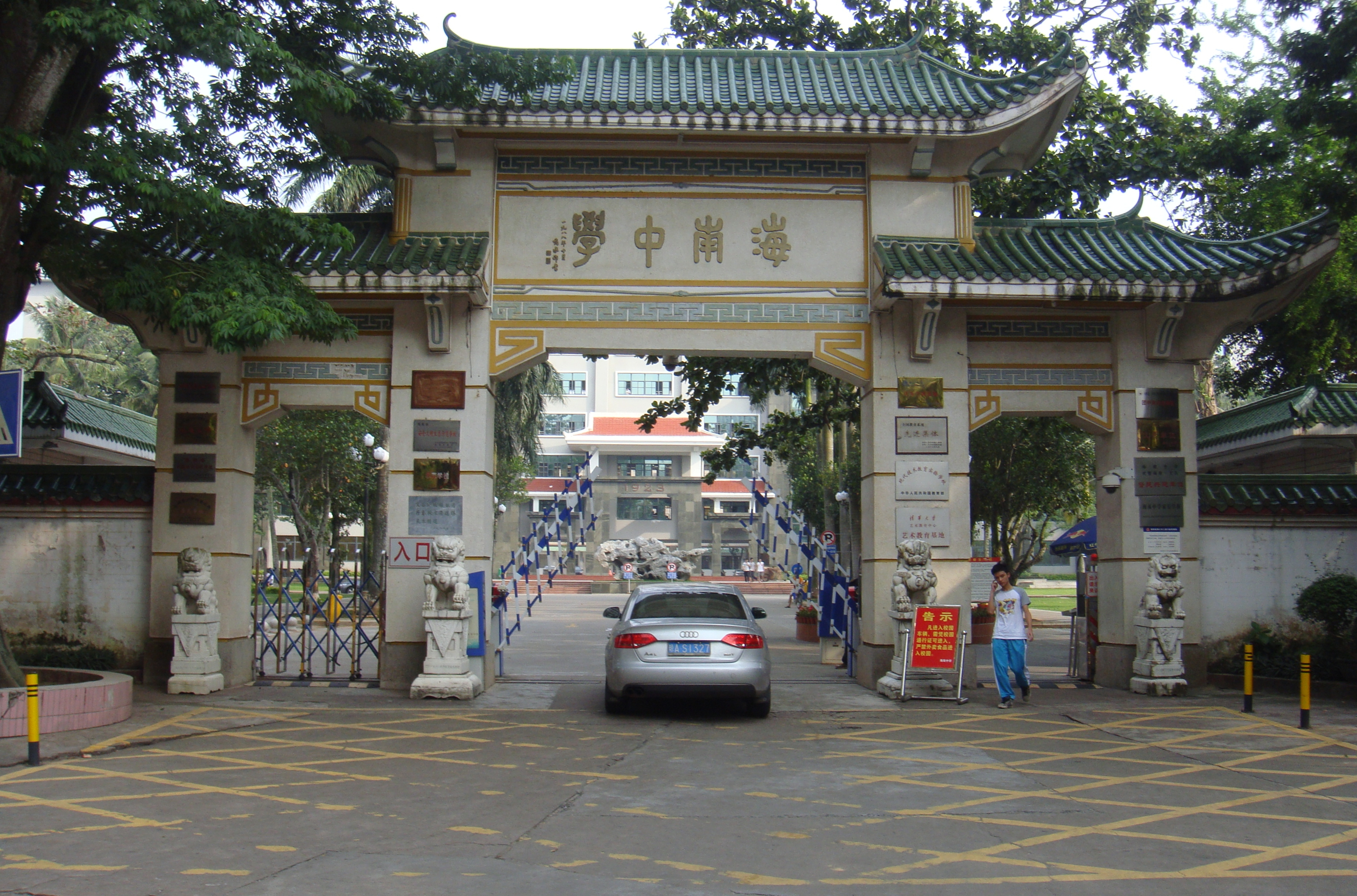 Hainan Middle School, main entrance, Haikou, Hainan, China